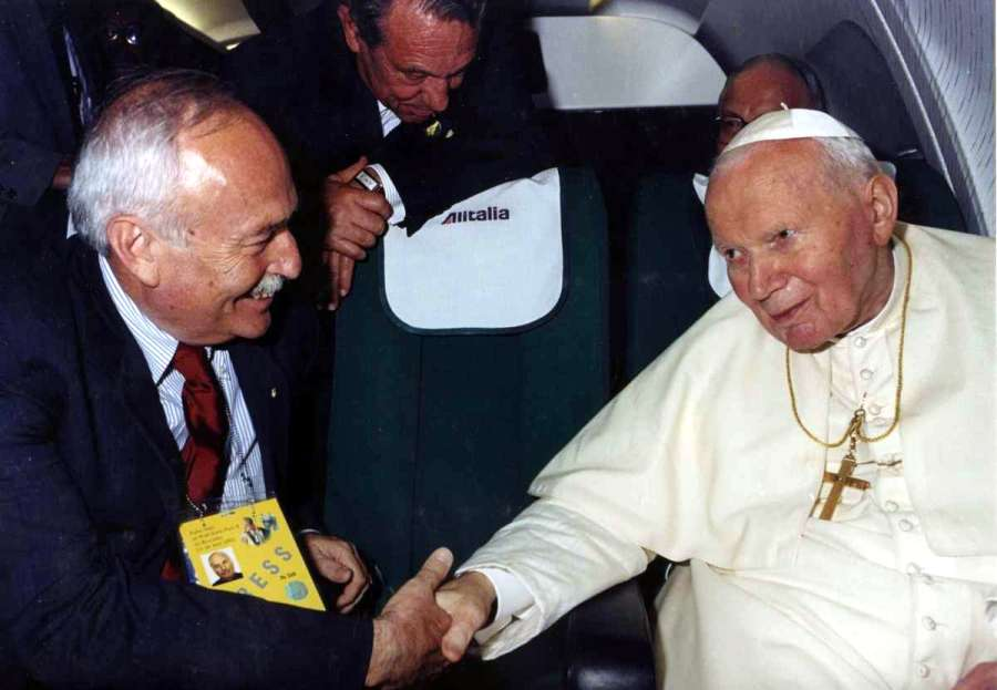 A. Bukalov and Pope John Paul II